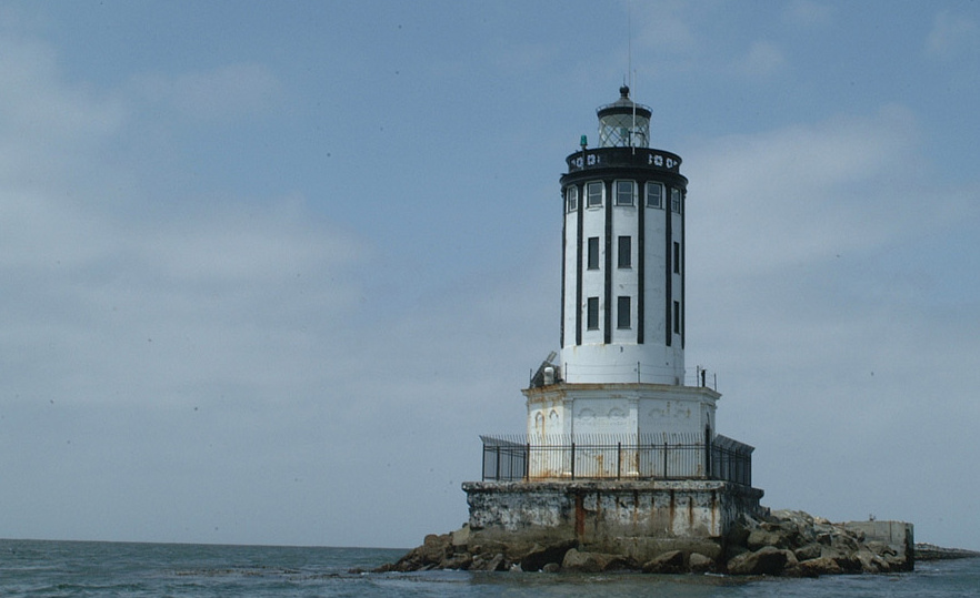 The Los Angeles Lighthouse, also known as Angel's Gate, is the only lighthouse of its kind in California. Built to withstand heavy seas, its unique structure is steel framed; the first two floors of which are steel plated. The solid design was challenged in a five day storm in the 1970s. At the end of the heavy storm, Angel's Gate remained standing, suffering only a slight list from the heavy waves that crashed upon it. The 73-foot lighthouse is located at the mounth of Los Angeles' Long Beach Port, the third largest container port in the world.